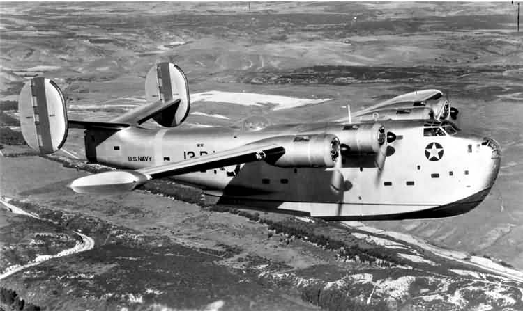 A Consolidated PB2Y-2 Coronado, a large flying boat patrol bomber designed by Consolidated Aircraft 1937, in flight. The plane was operated by patrol squadron VP-13 (aircraft 13-P-1). The photo was taken in November 1940, note that the plane is painted in the colourful pre-war scheme.